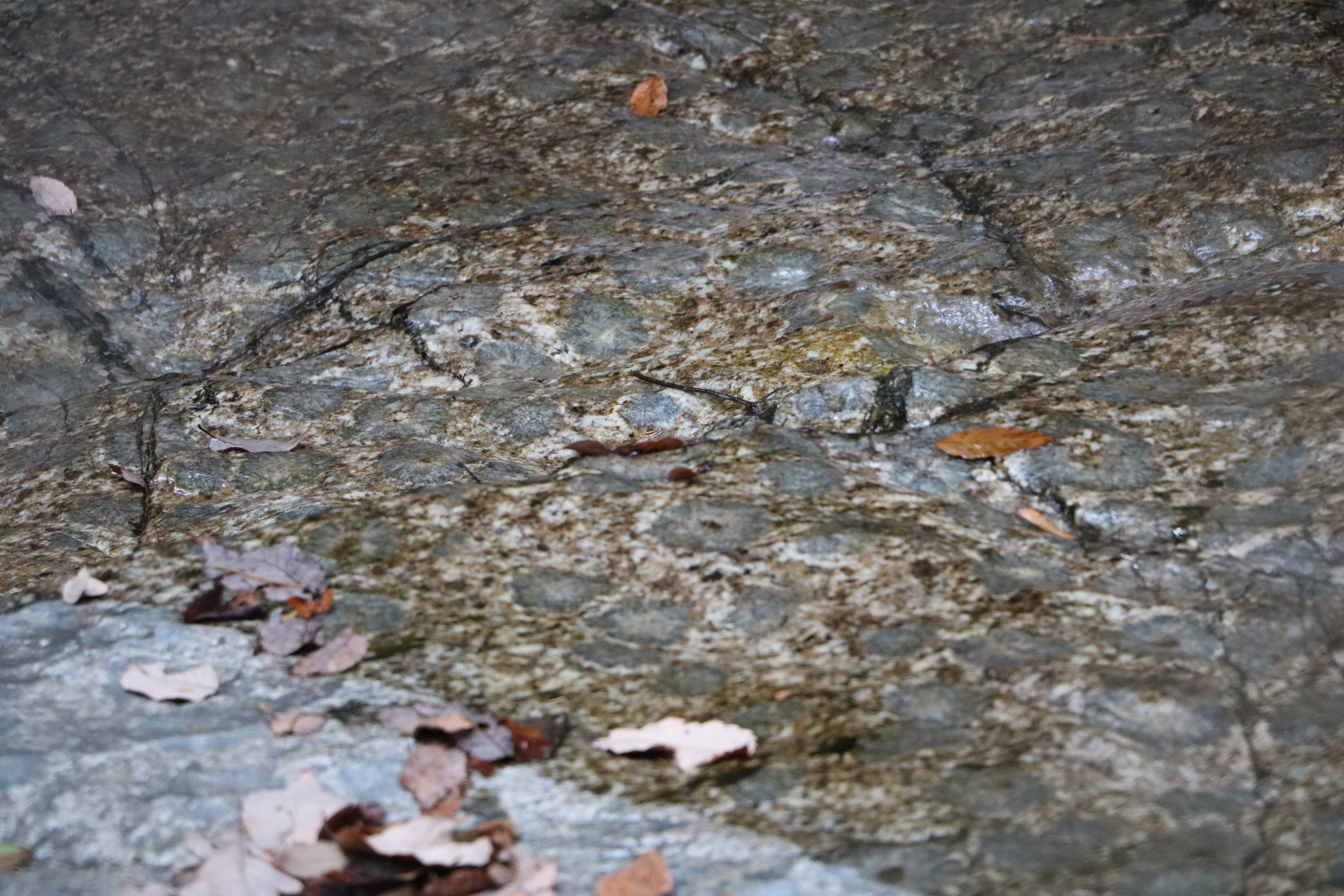 Granito Orbicular rock on Mt. Sanage